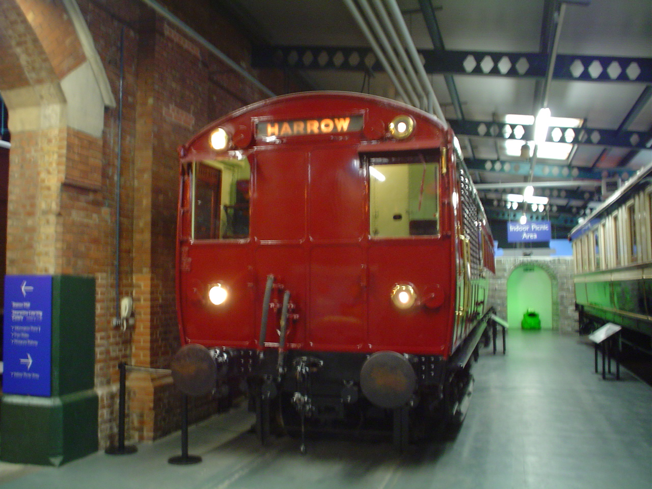 LNWR EMU Motor Car at National Railway Museum, York